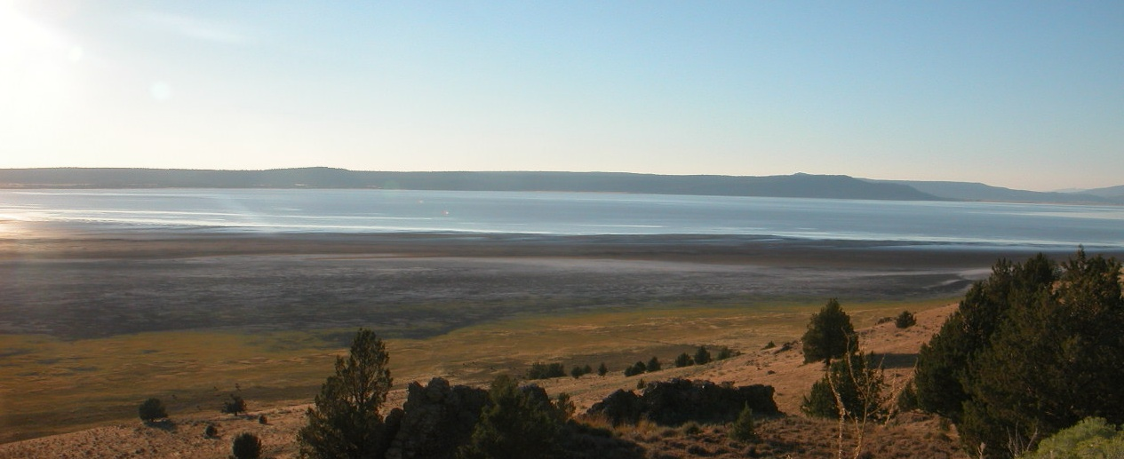 Southern view of Goose Lake, which straddles the Oregon–California border in the High Desert east of the Cascade Range